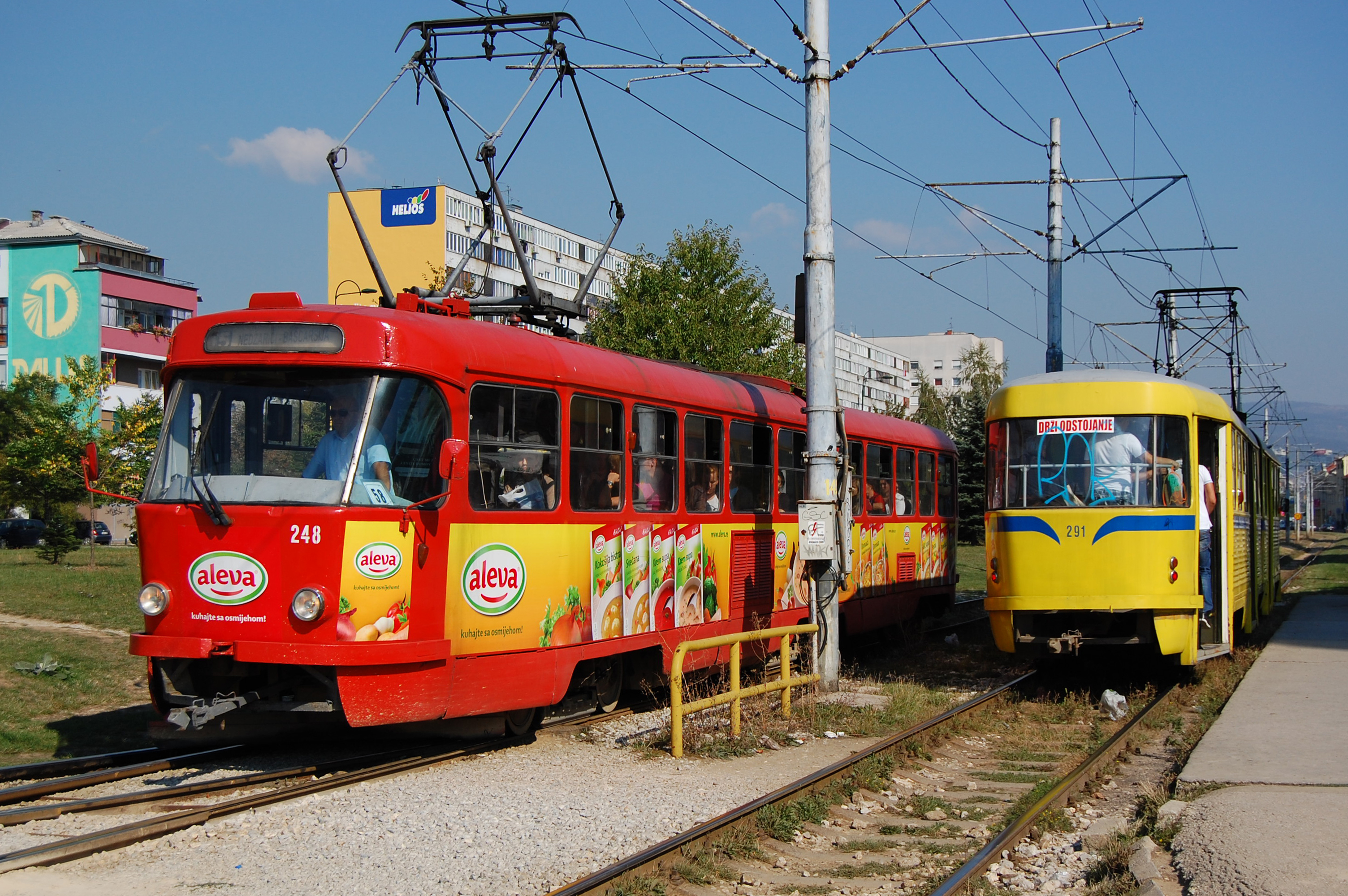 Tram #248 running westbound at Čengić vila, Line #5, October 4, 2011